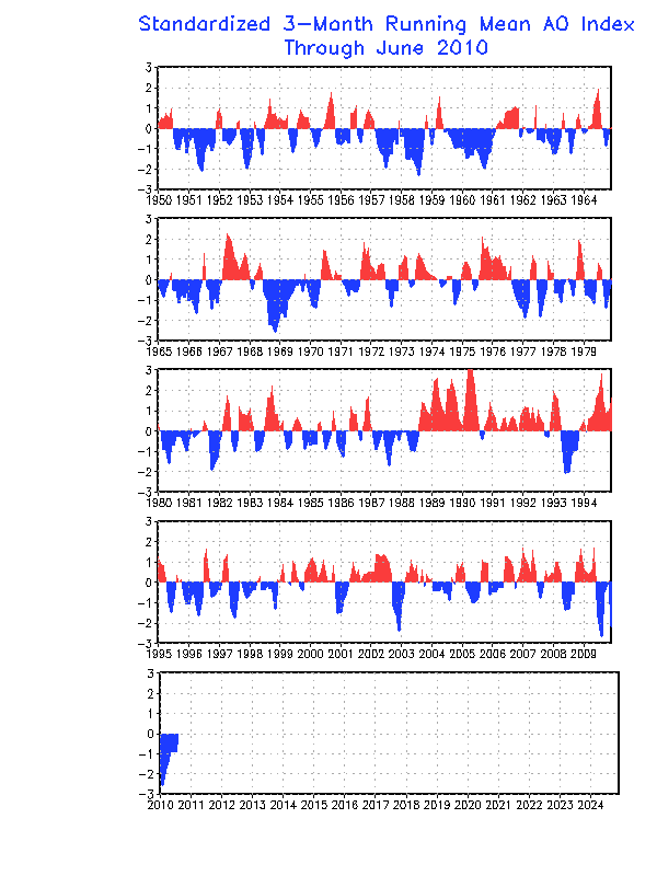 Monthly Mean of Arctic Oscillation (AO) index.